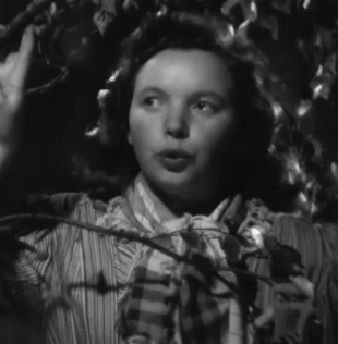 Photograph of the Finnish poet Eila Kivikk’aho (1921–2004).